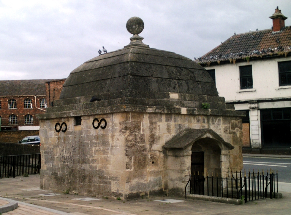 The "Blind House", used to lock up drunks overnight, in Trowbridge, Wiltshire